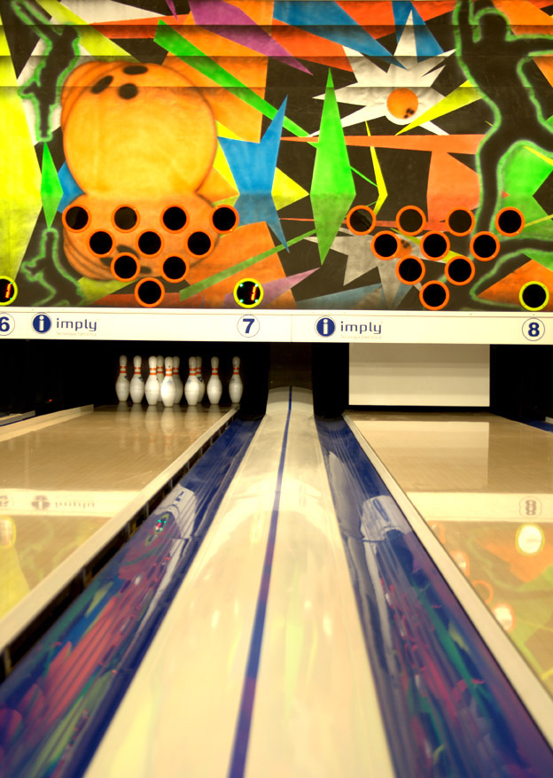 Bowling Lane with high technology and activated Bumpers